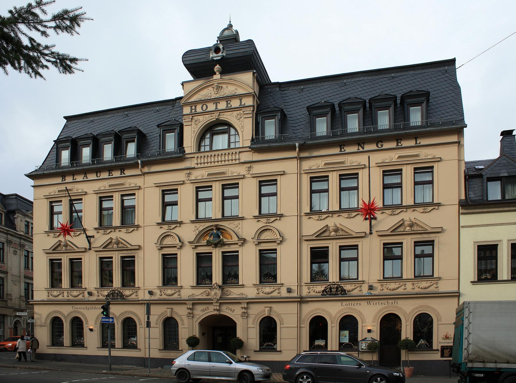 Aue, Saxony: Blauer Engel Hotel. View from Altmarkt square.